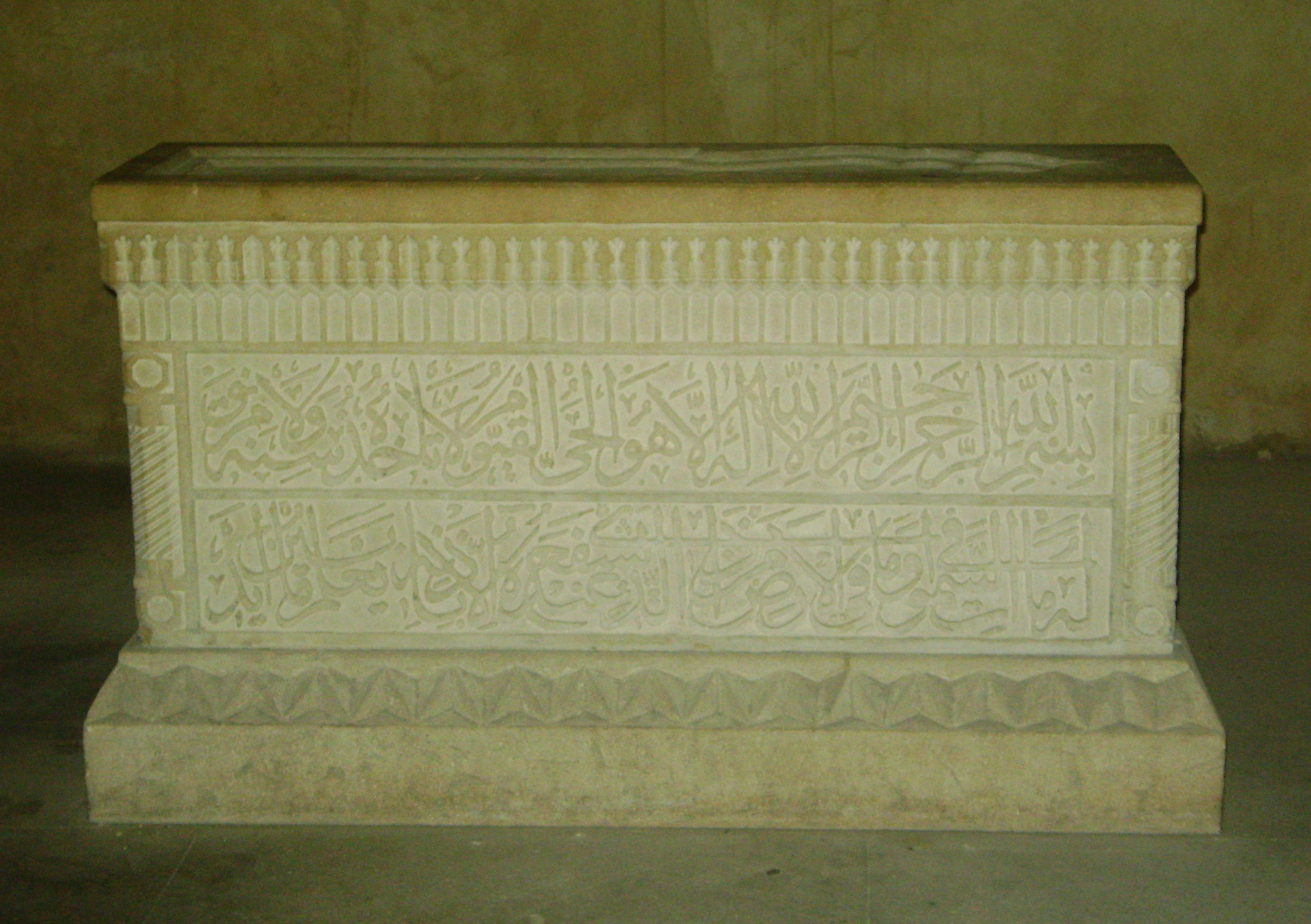 shirvanshakh_palace_old_city(baku)_azerbaijan_8-18centuries - tomb of Seyid Yahya Bakuvi - 1464